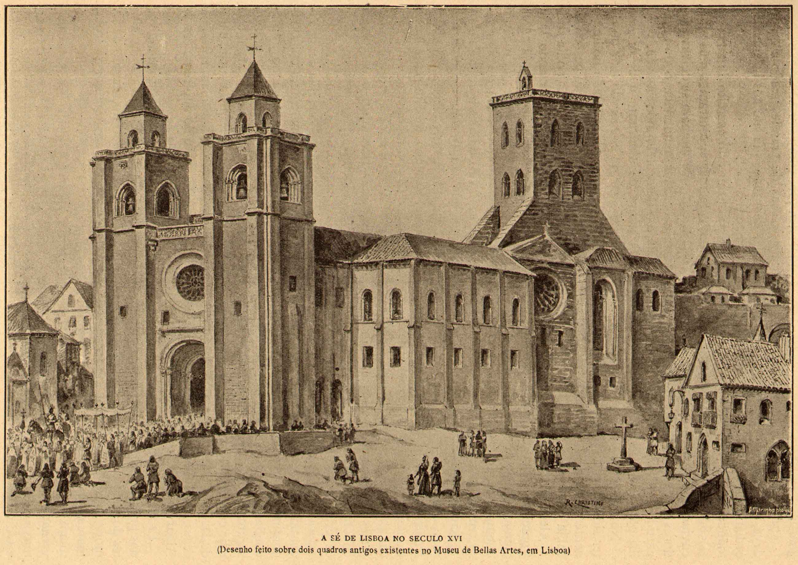 Illustration by Alfredo Roque Gameiro in the book História de Portugal, popular e ilustrada, by Manuel Pinheiro Chagas